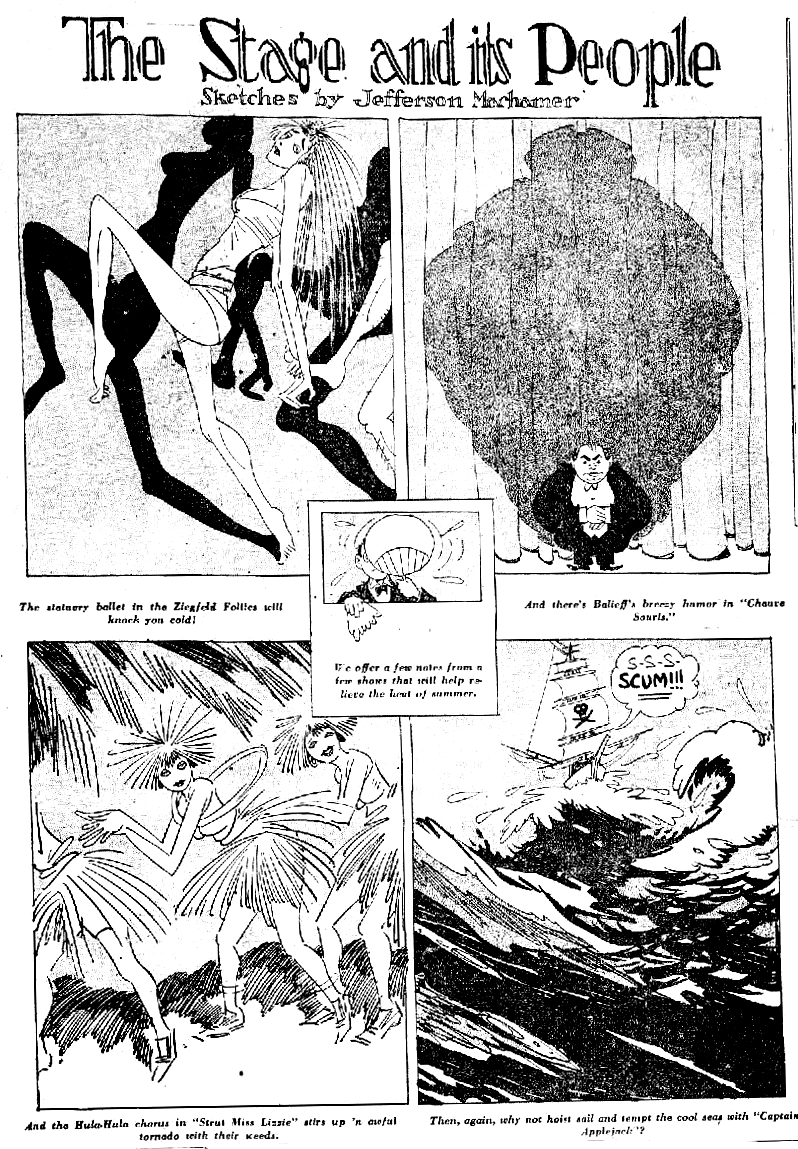 1922 illustration by Jefferson Machamer, published in the New York Tribune.